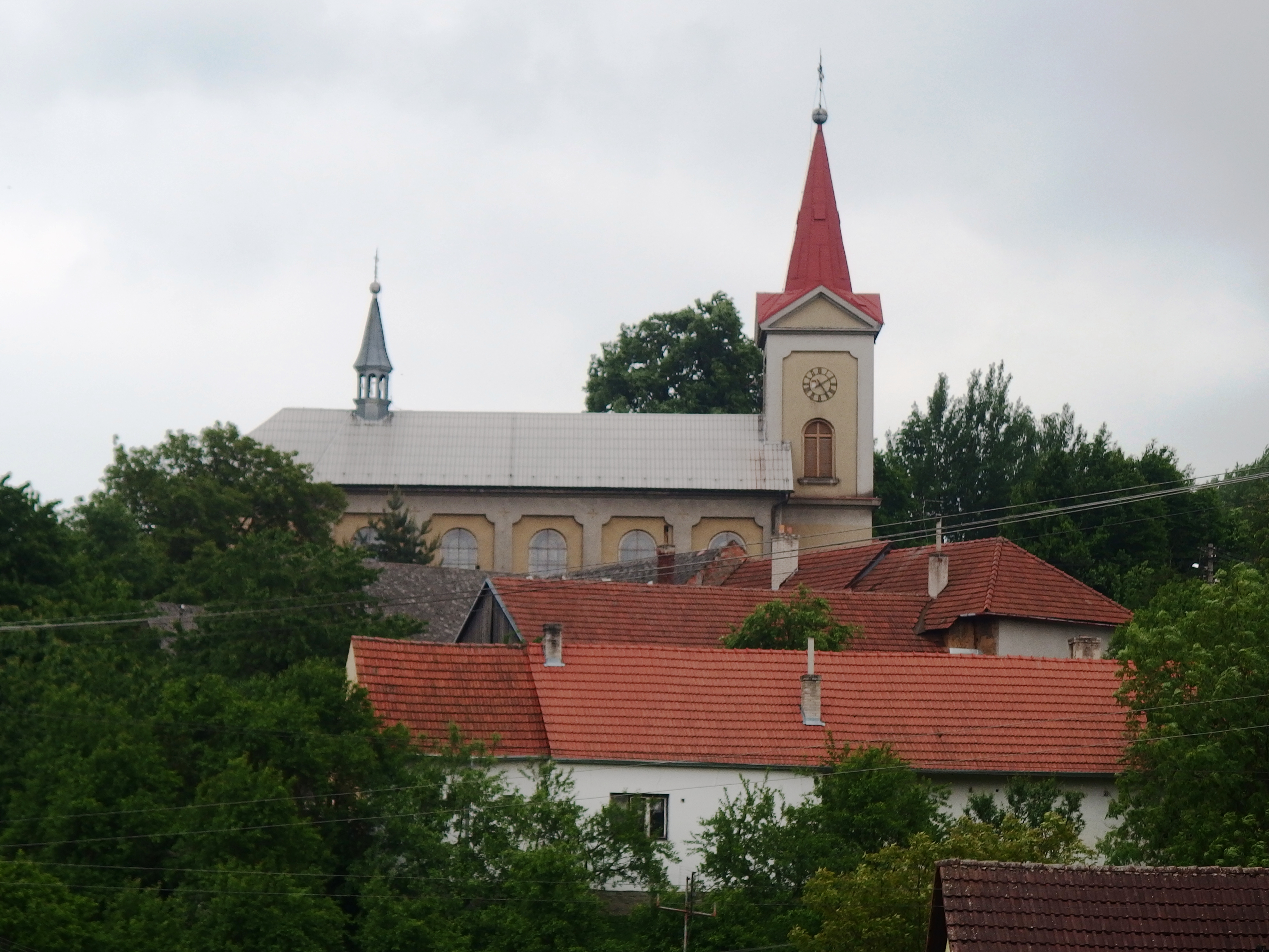 Hlinsko, Přerov District, Czech Republic.